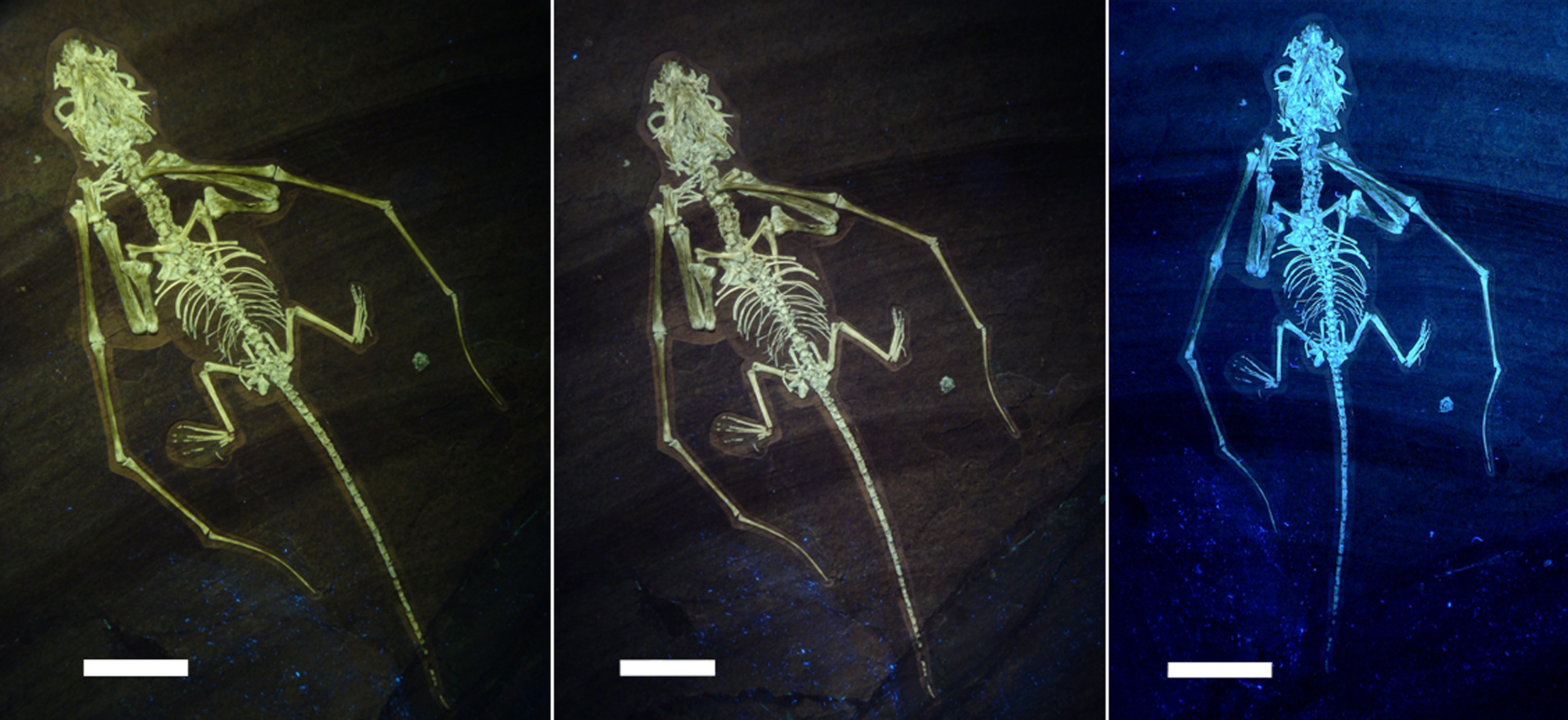 Bellubrunnus under multiple UV regimes. Different filter and light combinations illuminate the bones and matrix differently providing greater clarity of some details. A selection are shown here for reference.